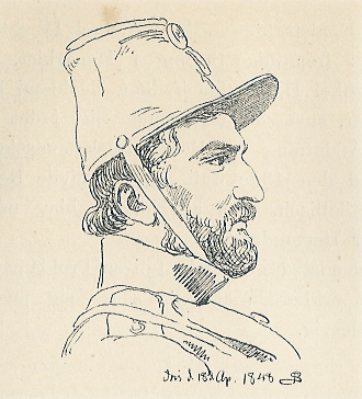 Carlo Edvard Dalgas in 1848. 1820-1851. Drawing by P.C. Skovgaard